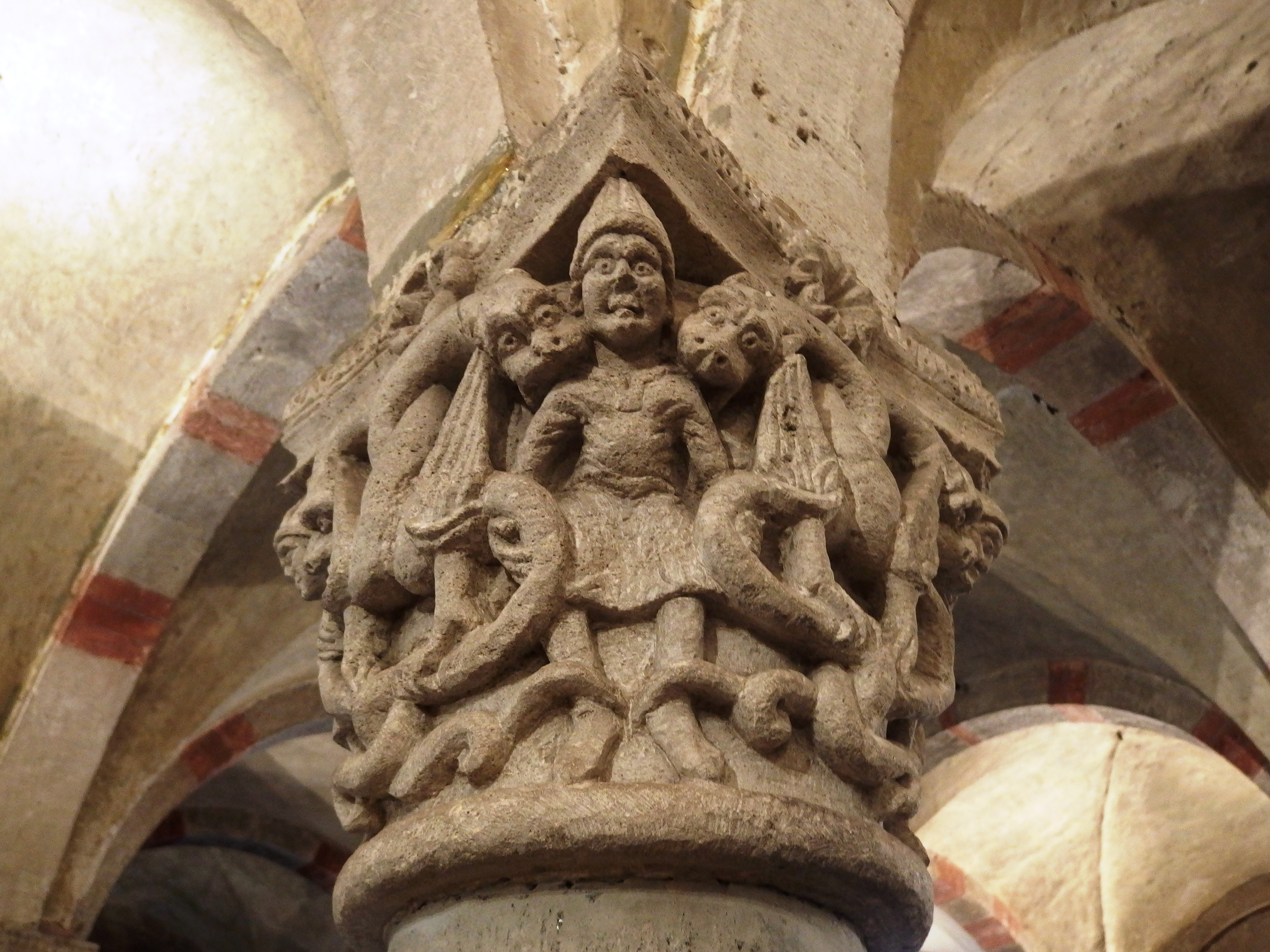 Pavia, Italy. Church San Michele, crypt.